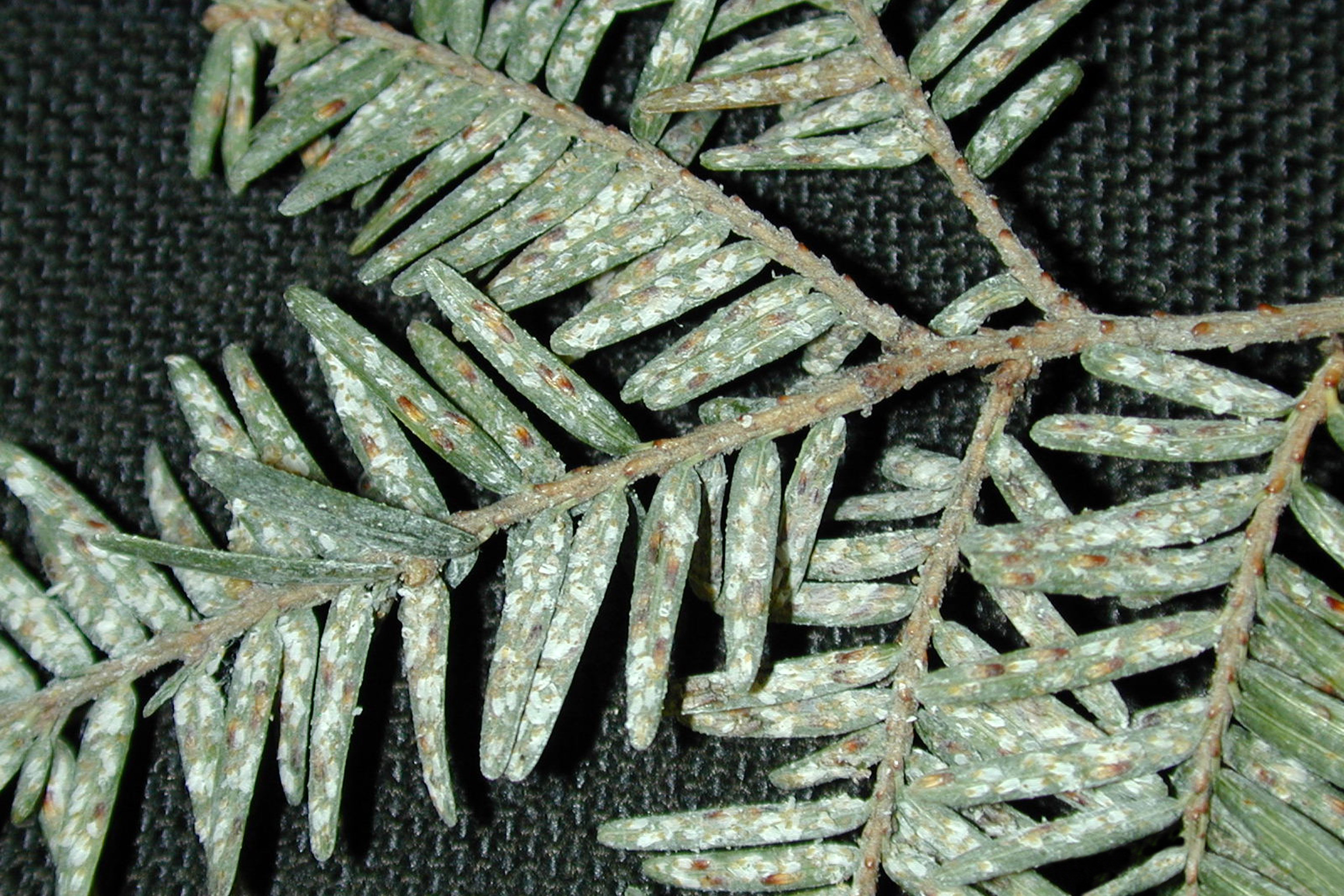 Fiorinia externa Ferris Common Name: elongate hemlock scale Photographer: Eric R. Day, Virginia Polytechnic Institute and State University, United States Descriptor: Infestation Image taken in: United States